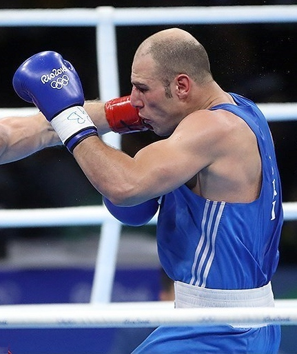 Boxing at 2016 summer Olympic Games in Rio de Janeiro. Ehsan Rouzbahani (Iran) against Peter Mullenberg (the Netherlands)